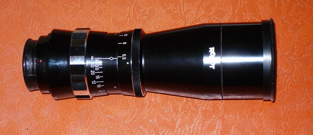 ROBOT 200mm lens